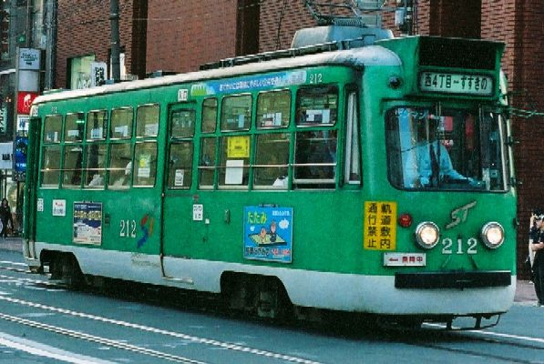 札幌市電212号車 2006年5月25日、西4丁目にて投稿者撮影 Sapporo Streetcar, 212 Tram. 25 May 2006, in Nishi 4 Chōme (West 4th District), photo by uploader.